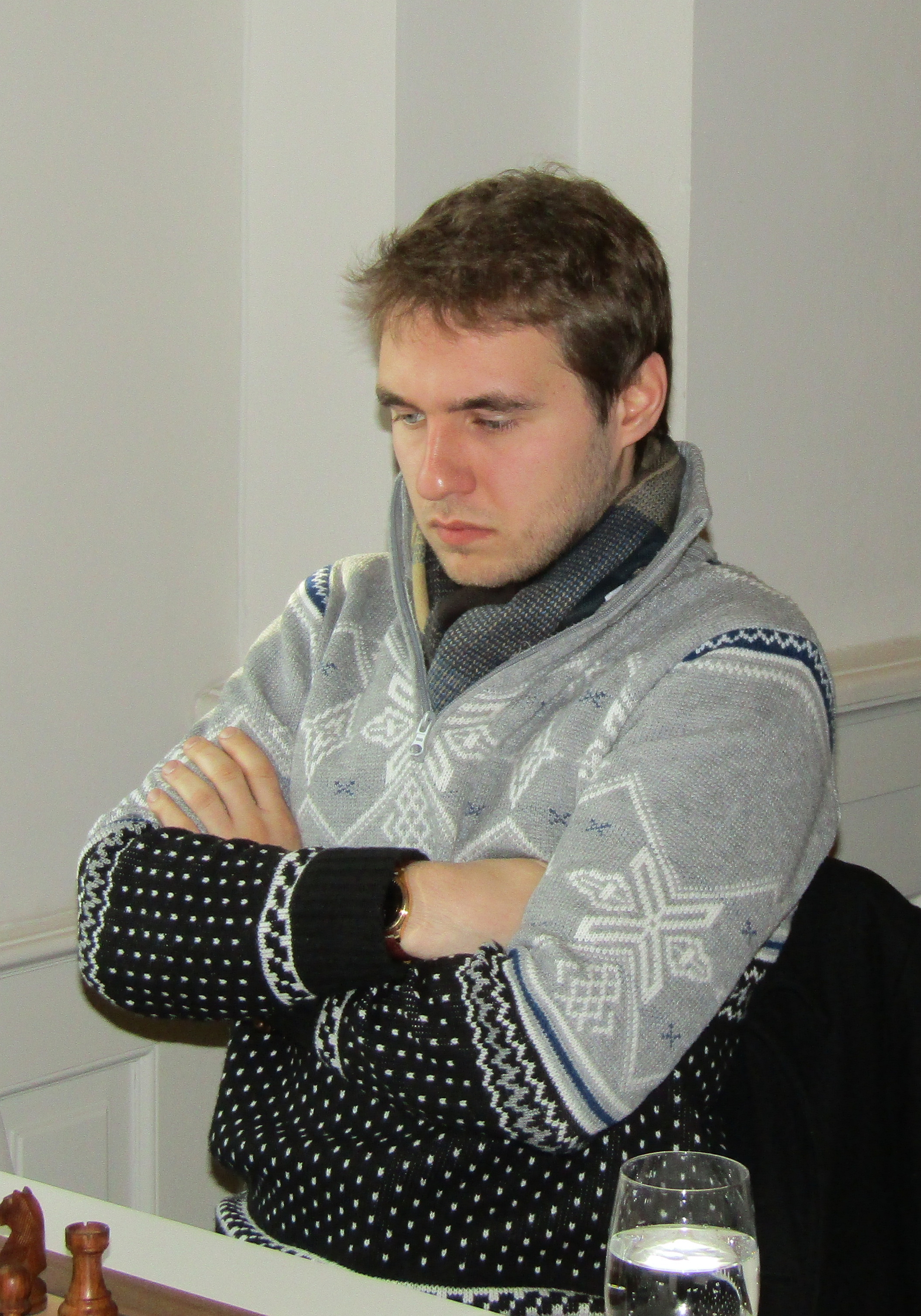 Nikita Meshkovs, chess grandmaster from Latvia, 2017